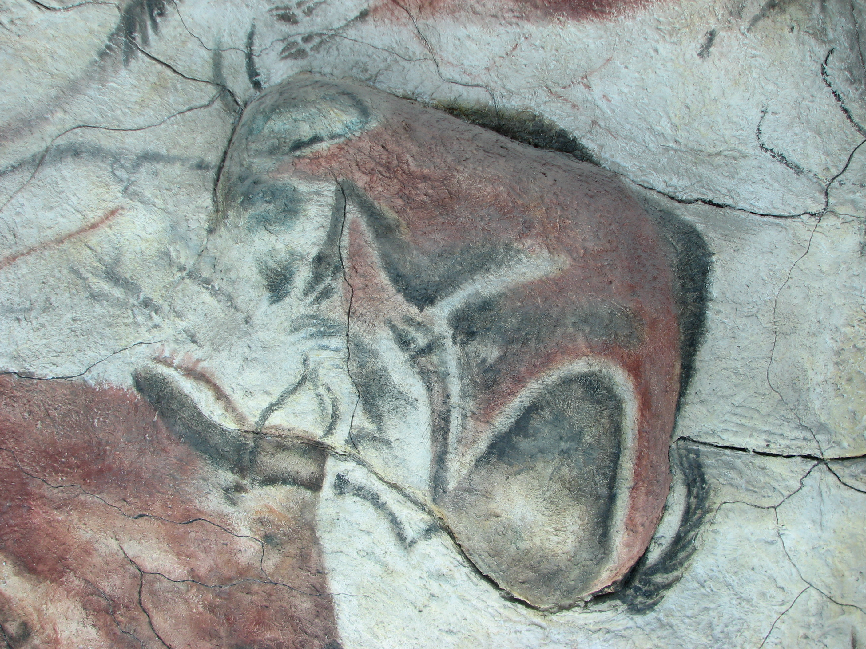 Bison from the model of the ceiling of Altamira, in the Brno museum Anthropos